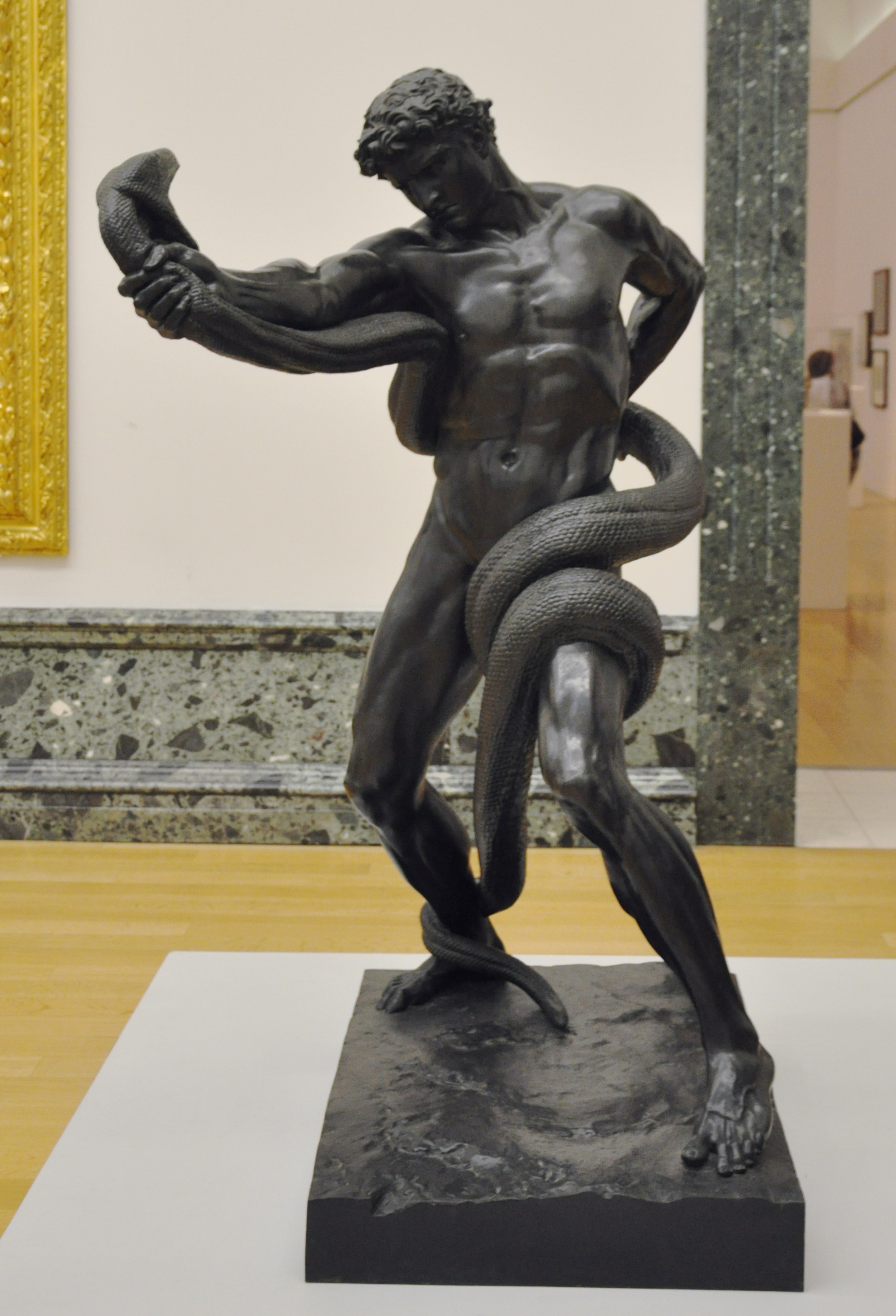 London, Tate Britain, Frederic Leighton: An Athlete Wrestling with a Python, bronze, 1877, N01754